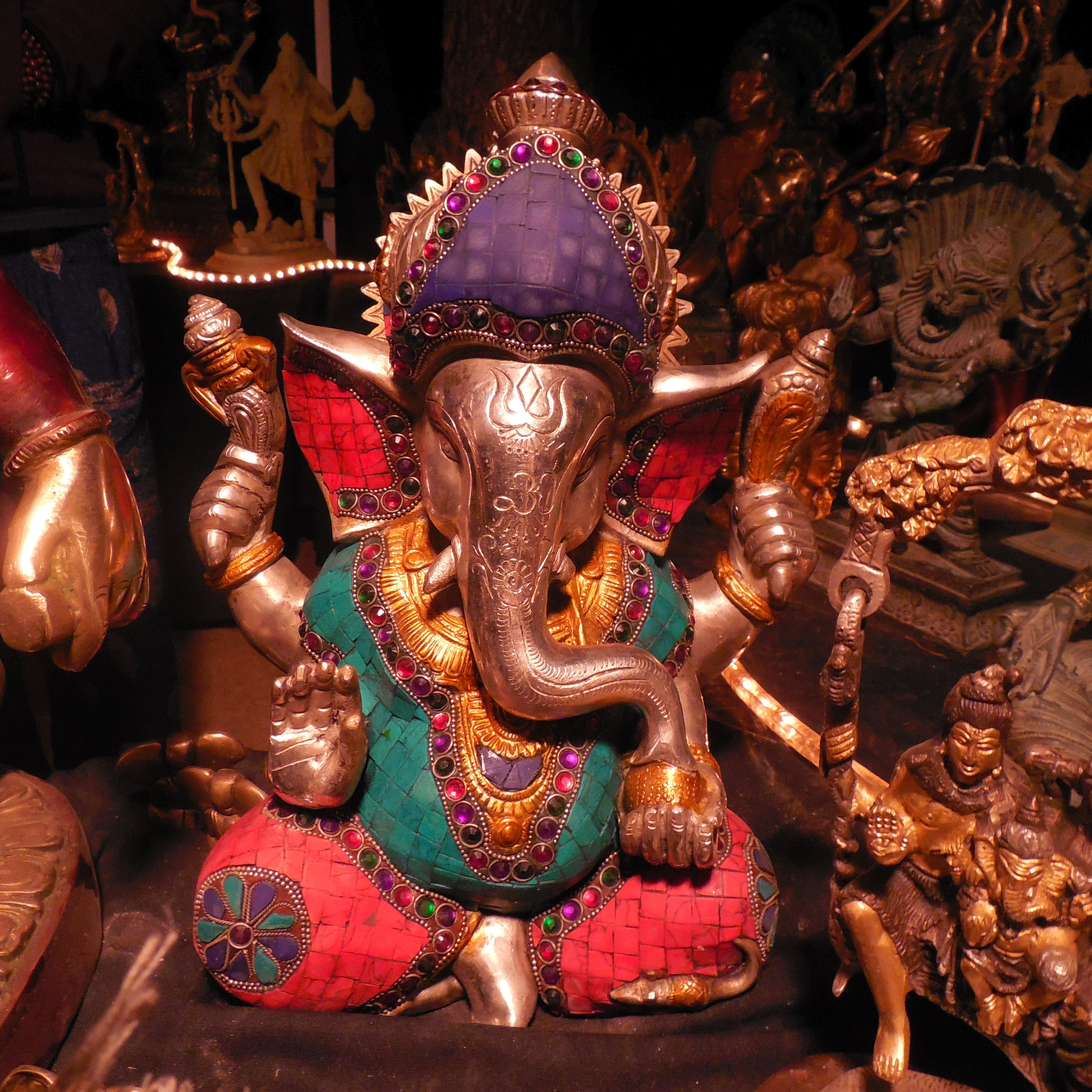 Collection of Murtis (of Dr. Manoj Chalam) with Lord Ganesha at center; Bhaktifest West, Joshua Tree, California, September 2017.